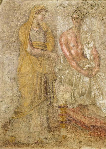 A Hellenistic terracotta funerary wall painting of a seated man and a standing woman, most likely husband and wife; it is dated to the 3rd century BC. The style and poses of the figures depicted here are similar to those found in earlier Attic grave stelai and white ground lekythoi from the 5th-4th Centuries BC. To the right of this scene (pictured here) are two of their attendants standing by, one of them perhaps being a slave, while the other holds a Greek hoplon shield, is armed with a spear, and wears a golden helmet with red ribbons and a red plume. The central male figure wears a himation garment over his left shoulder and rests his feet on a red-painted wooden stool. The woman wears both a chiton and himation.